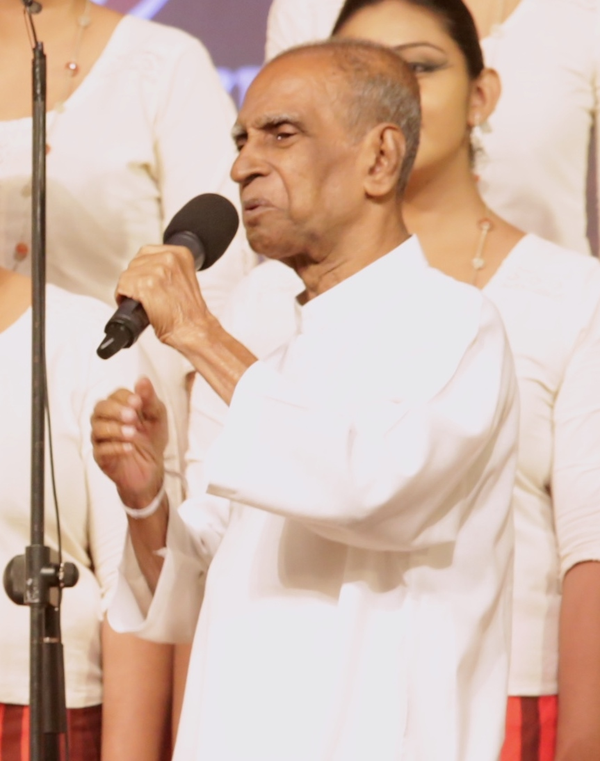 Photograph (Cropped) of acclaimed Sri Lankan Vocalist and Musical Composer,Pandit Dr.W. D. Amaradeva (පණ්ඩිත් ආචාර්ය ඩබ්ලිව්.ඩි.අමරදේව)